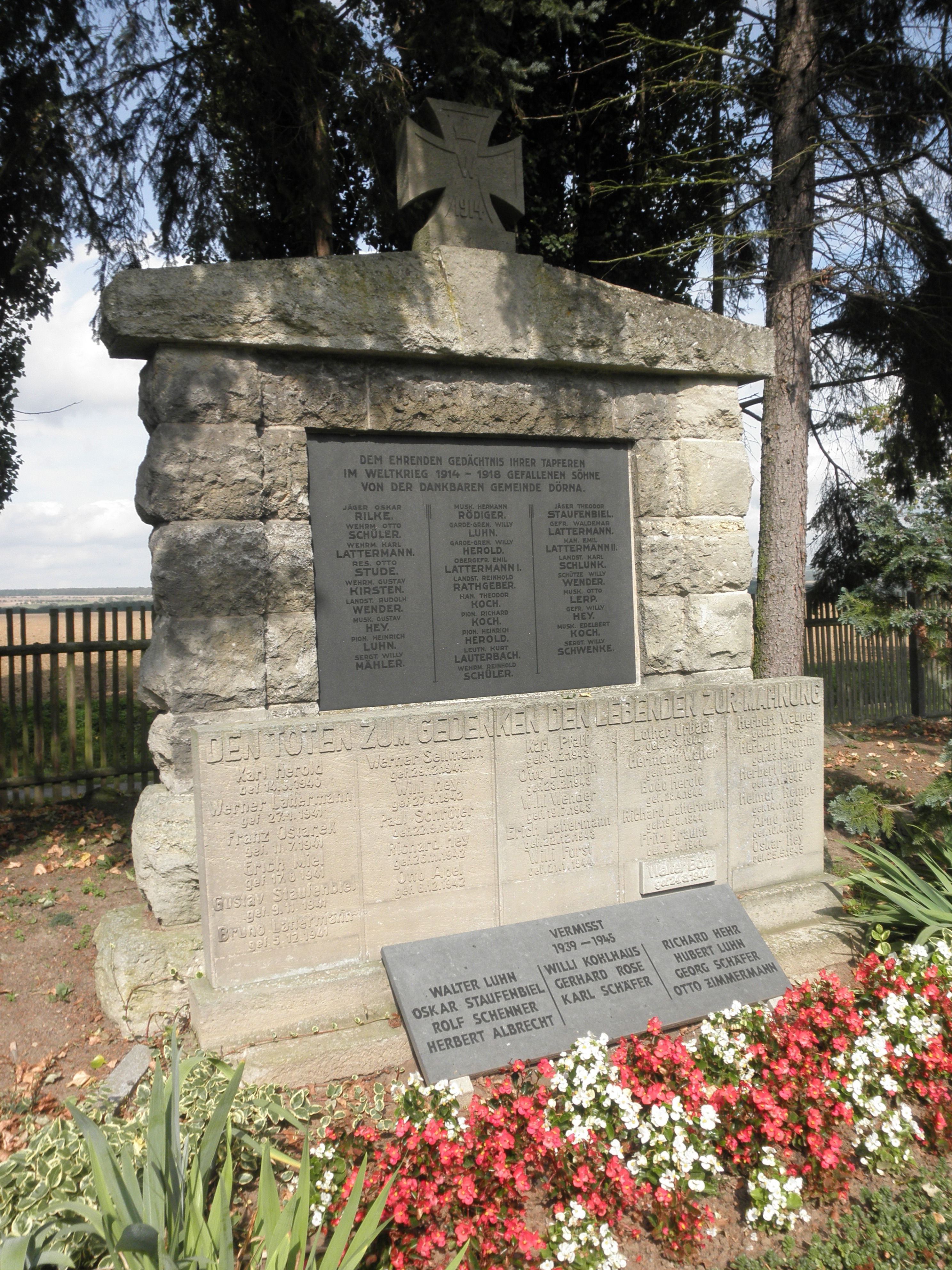 War Memorial in Dörna in Thuringia